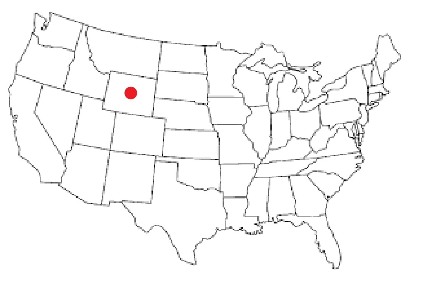 Locality Map